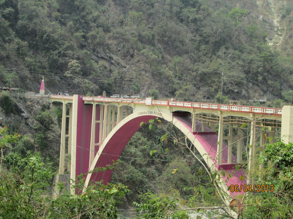 Sevak coronation bridge